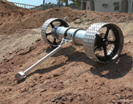 Axel rover is the proposed vehicle of the Moon Diver mission to the Moon, intended to investigate the exposed geological layers on the walls of a deep lunar pit. The rover would remain attached to the lander through a 300 m tether and rappel down a lunar pit called Tranquillitatis Pit, located in Mare Tranquillitatis. The mission concept was proposed to NASA's Discovery Program in 2019 to compete for funding and launch.